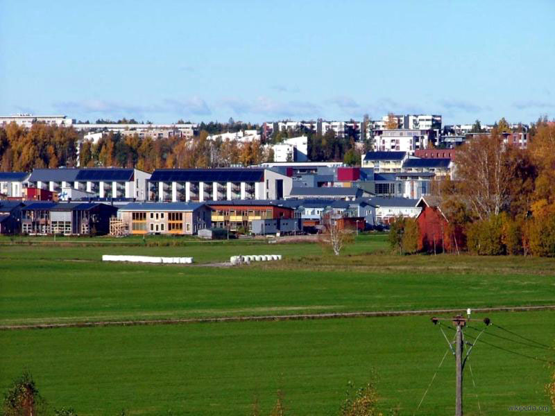 Autumnal view of Latokartano residential area in Viikki, Helsinki, Finland.